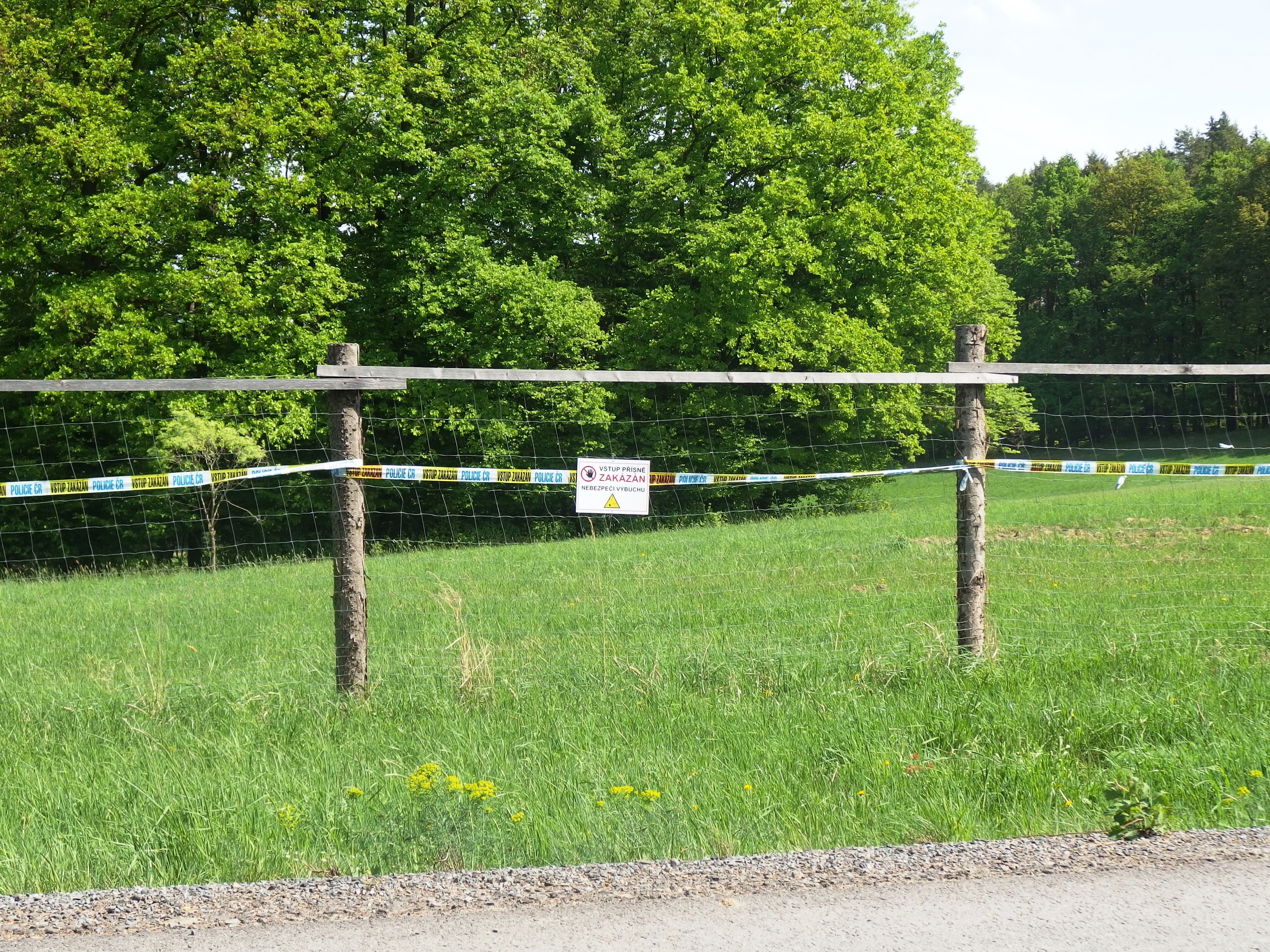 Lipová, Zlín District, Czech Republic.